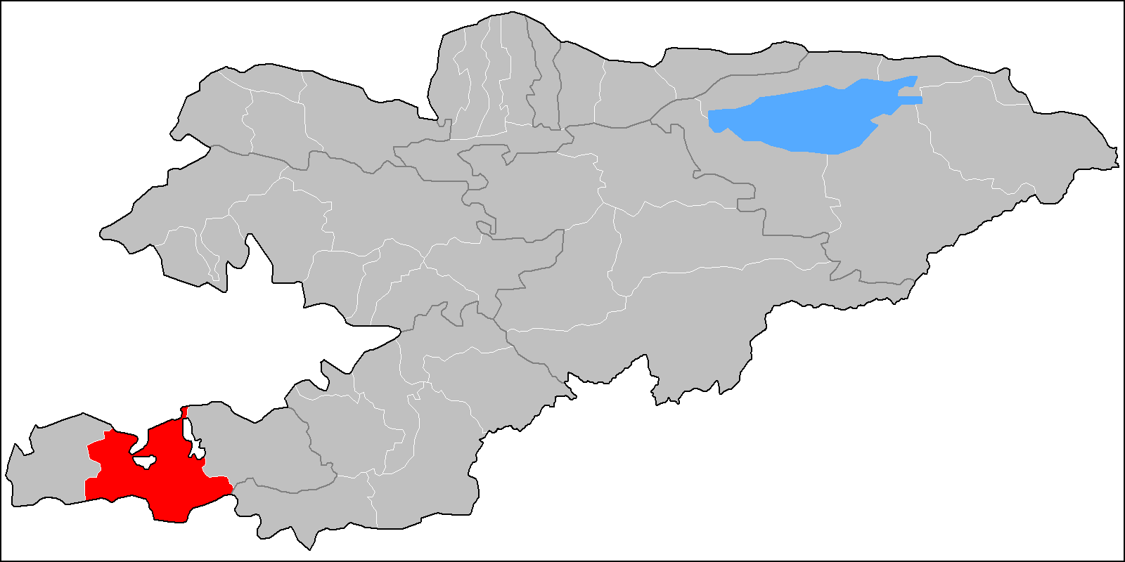 The location of the raion (district) of Batken in Kyrgyzstan. Based on Image:Kyrgyzstan raions.png